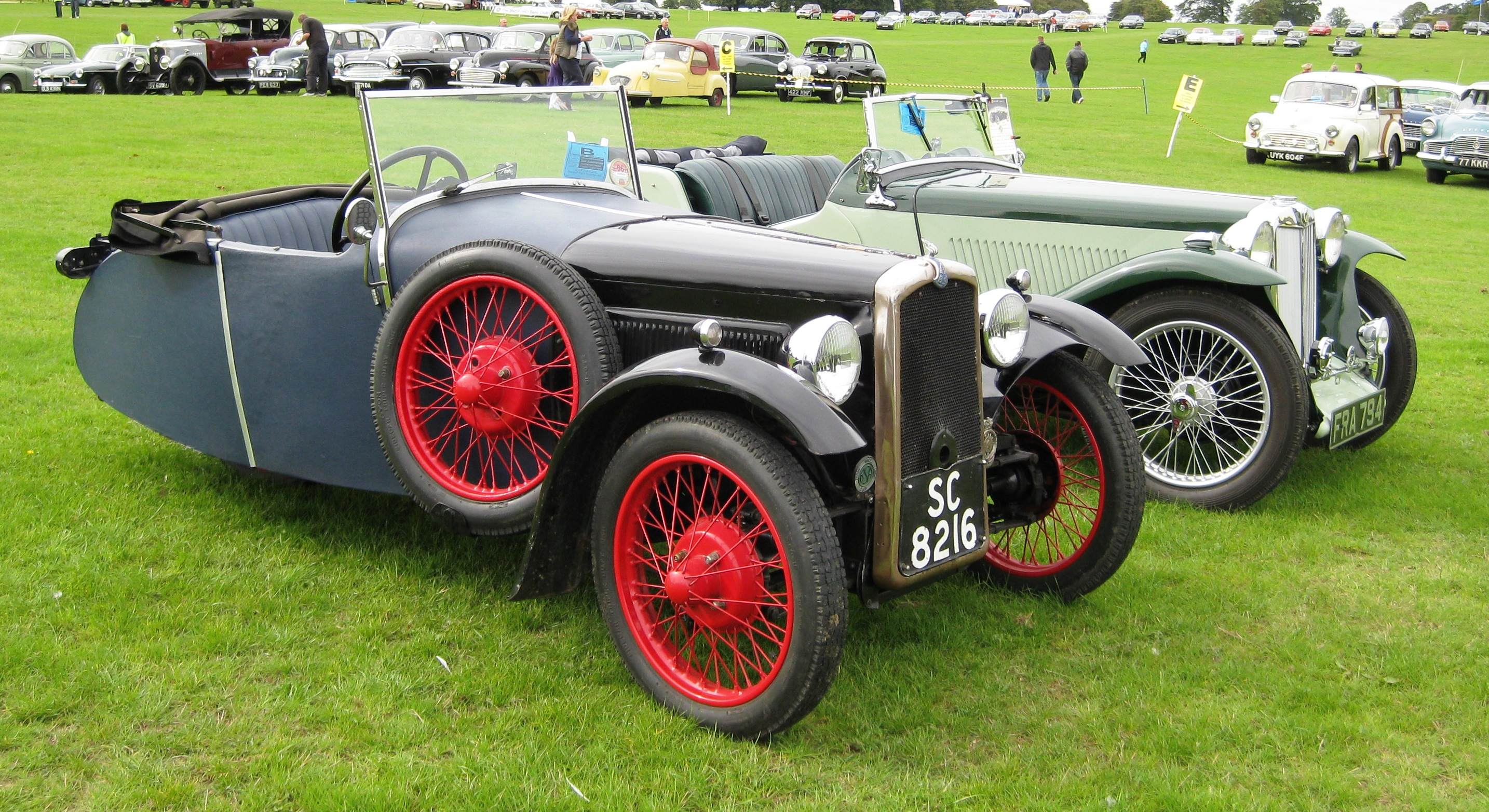 BSA 3 wheeler at Knebworth Classic car Show (from a description of the same car in a Flickr image) BSA Three Wheeler Twin (1930) Engine 1021cc V2 OHV Production 5200 approx. Registration Number SC 8216 A refined three wheeler with two independently sprung and driven front wheels. With car type controls, inboard front brakes coupled to the rear brake and a 60mph top speed. Powered by an engine based on a Hotchkiss design